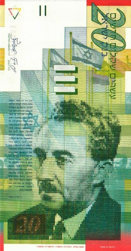 Obverse side of a 20 NIS bill, paper 1993